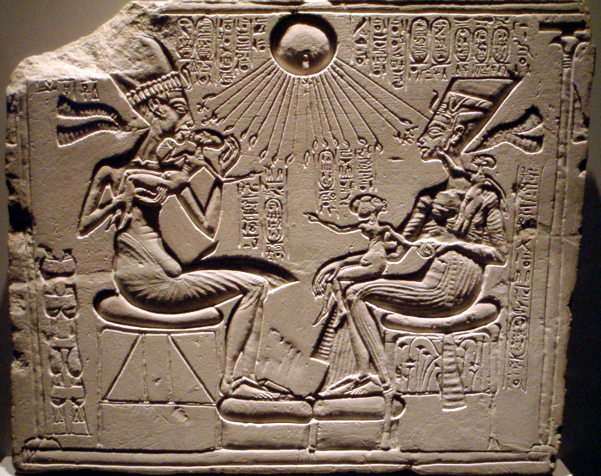 A house altar showing Akhenaten, Nefertiti and three of their daughters. 18th dynasty, reign of Akhenaten